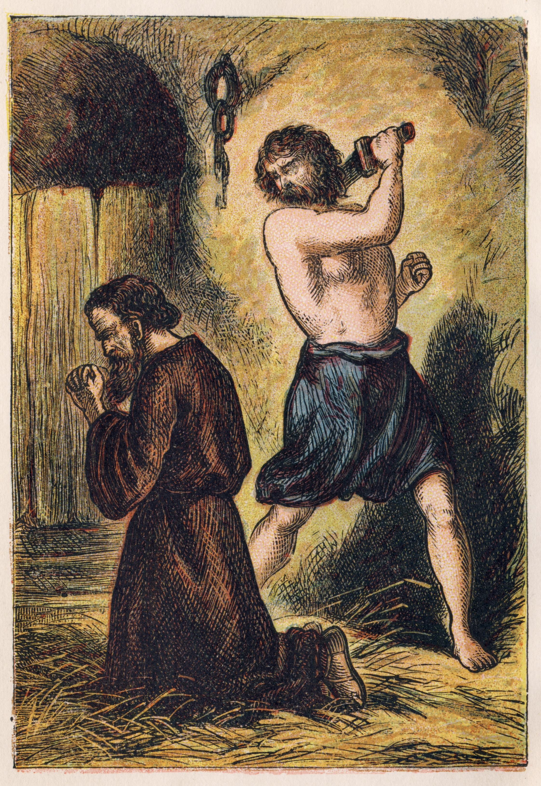 "Martyrdom of St. Paul", from an 1887 copy of Foxe's Book of Martyrs illustrated by Kronheim.